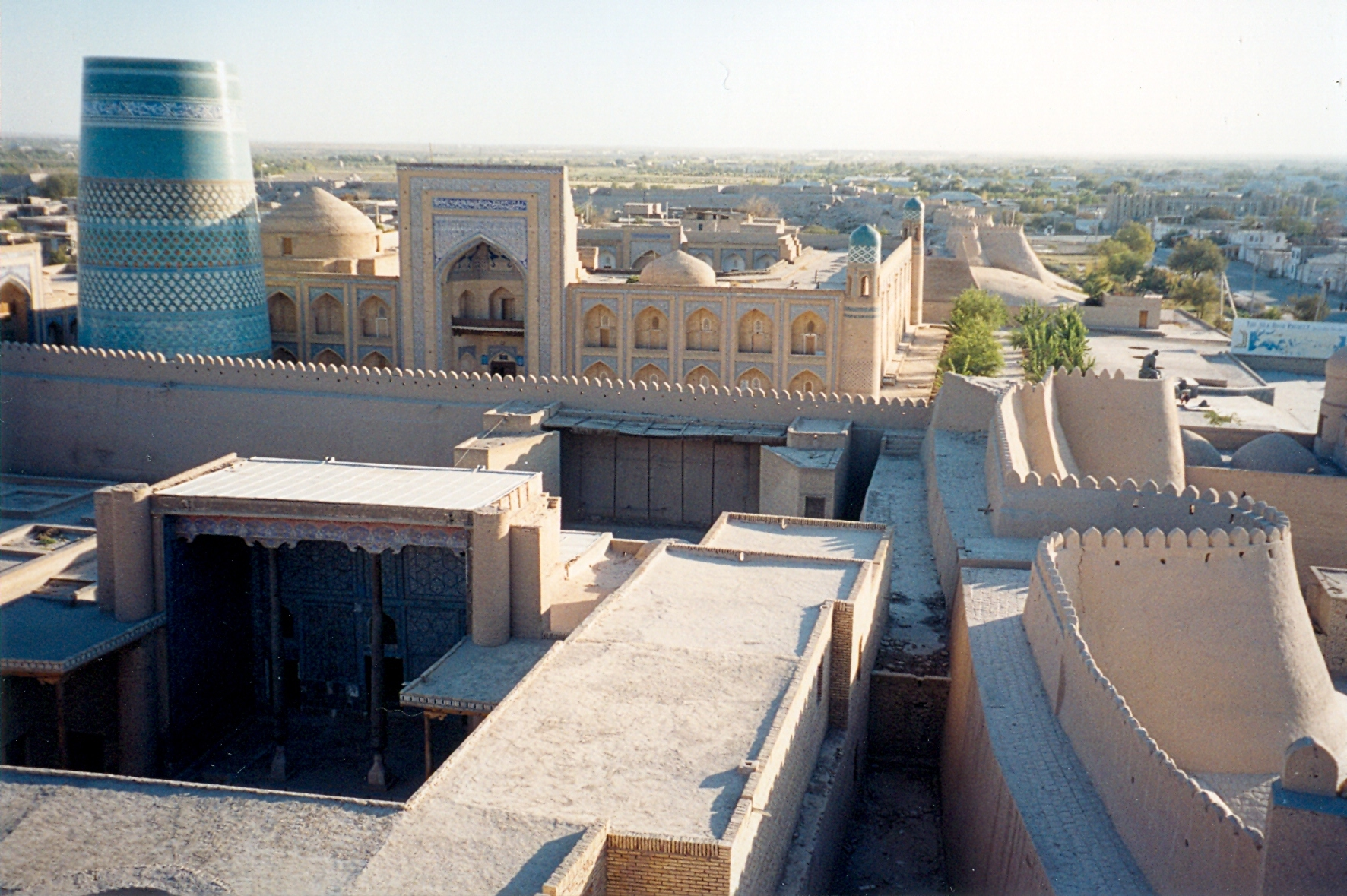 Walls of Itchan Kala, the Old City of Khiva, Uzbekistan.